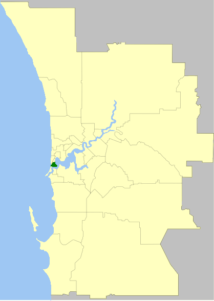 Location of the Local Government Area Town of Mosman Park in Perth, Western Australia